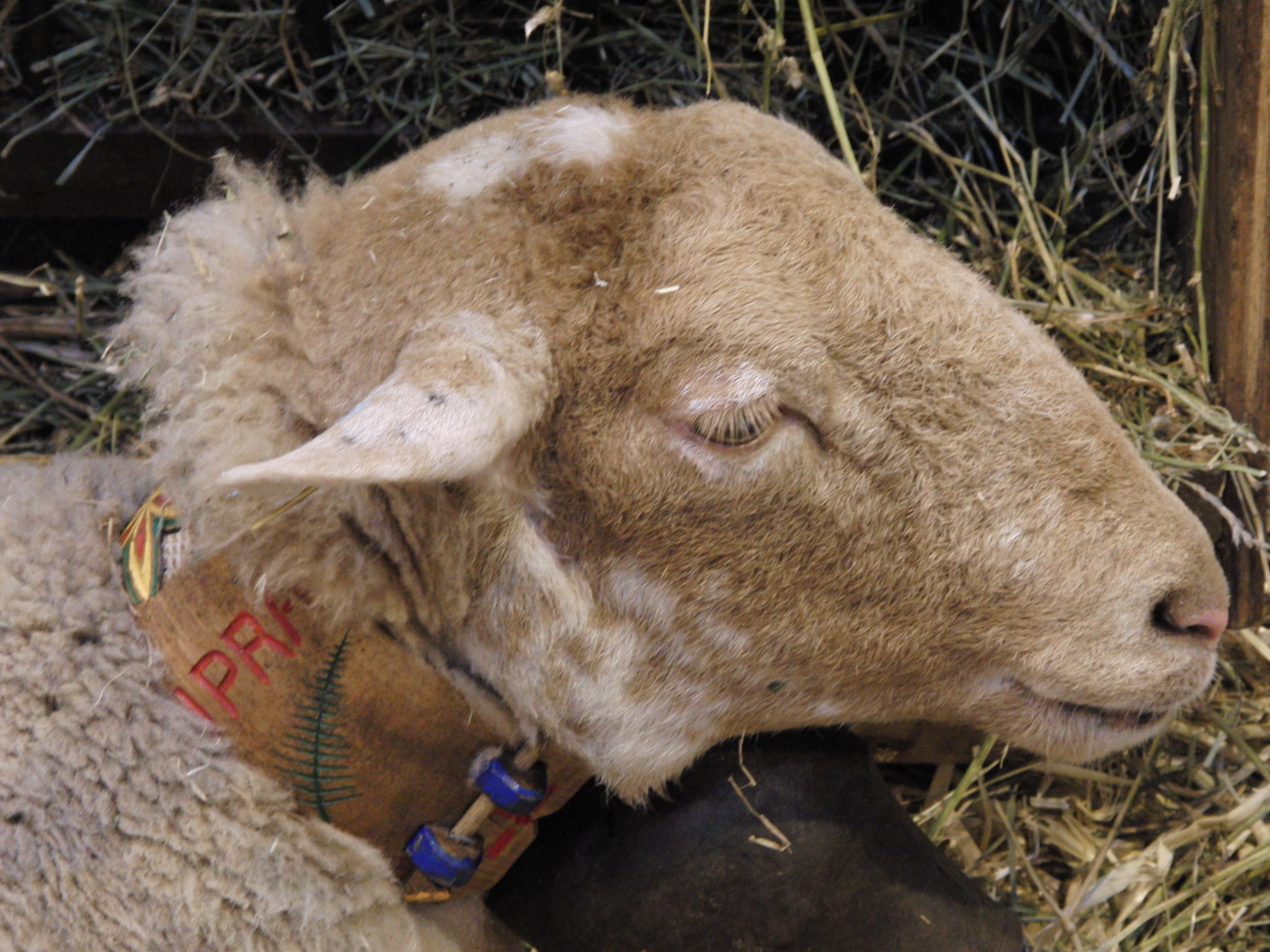 Castillonnaise sheep's head - Salon international de l'agriculture 2011, Paris, France